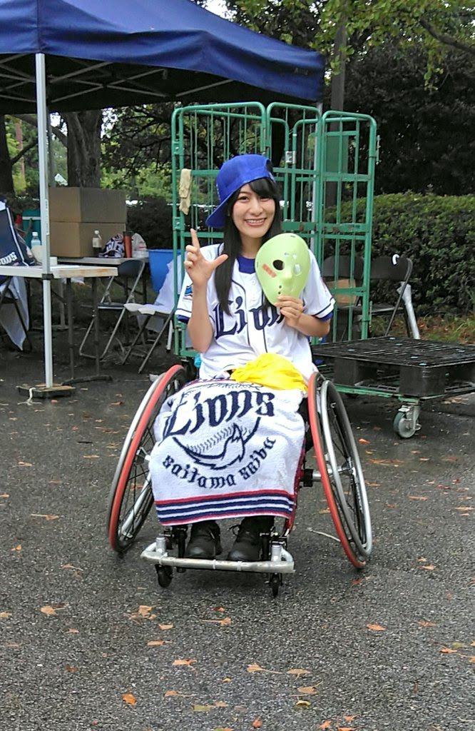 Photograph of Tomoka Igari.